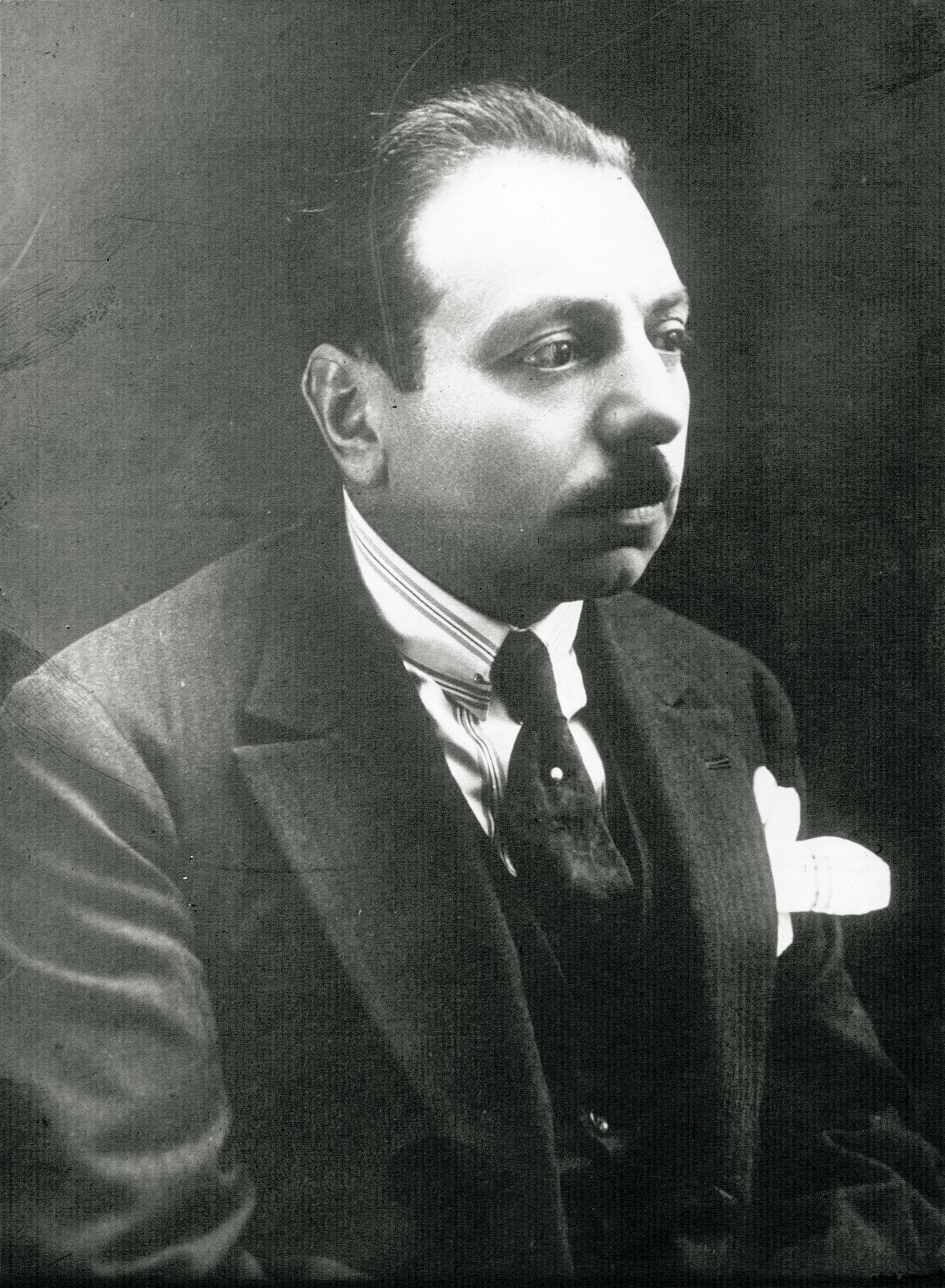 French anarchist and journalist Eugène Merle (1884-1946).